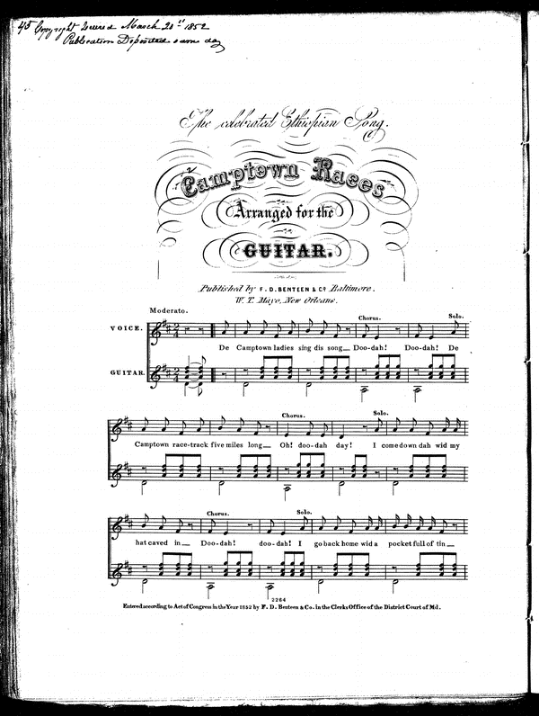 Sheet Music to Camptown Races